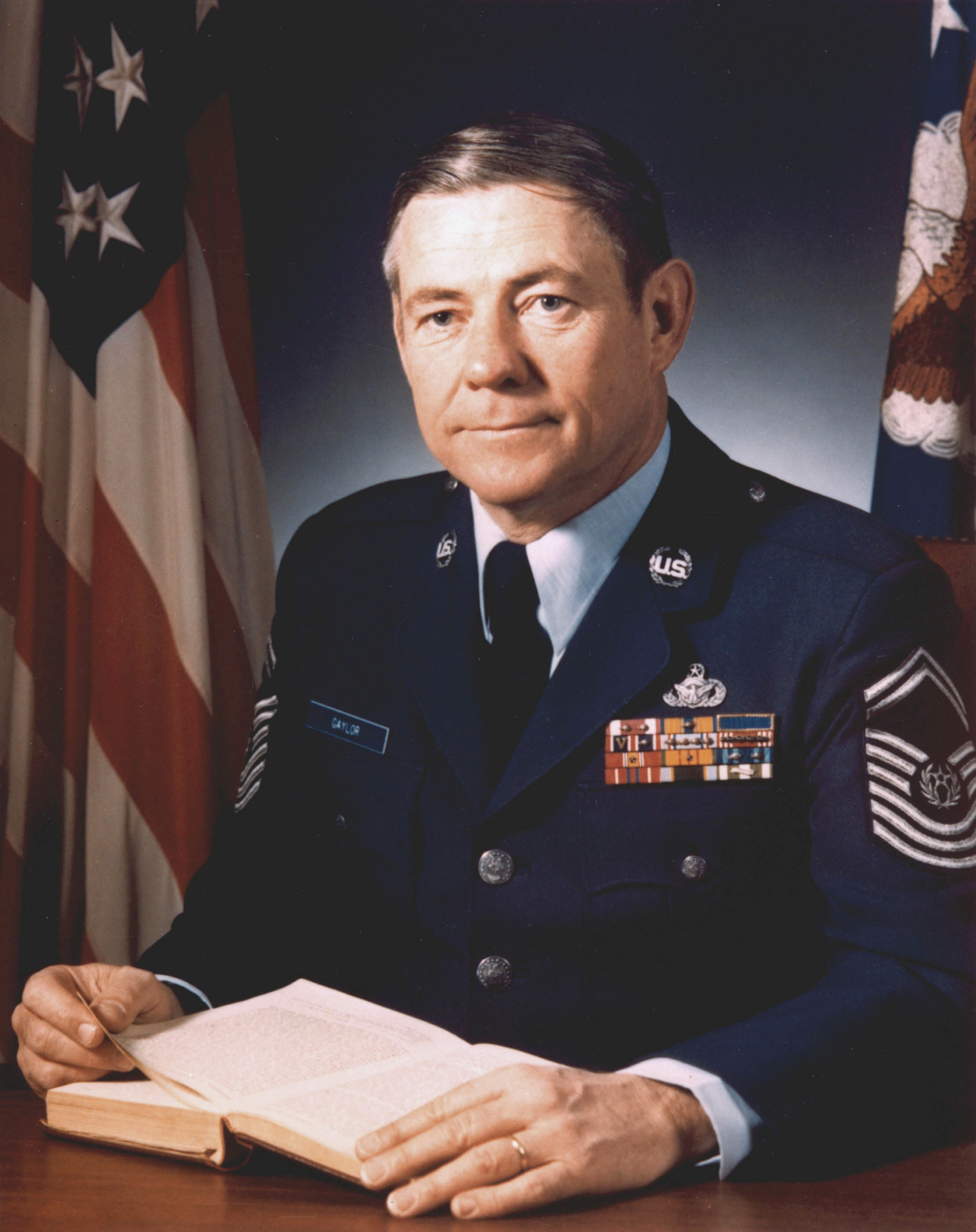 Robert D. Gaylor, 5th CMSAF. Chief Master Sergeant of the Air Force Robert D. Gaylor was adviser to Secretary of the Air Force John C. Stetson and Chiefs of Staff of the Air Force Gen. David C. Jones and Gen. Lew Allen Jr. on matters concerning welfare, effective utilization and progress of the enlisted members of the Air Force. He was the fifth chief master sergeant appointed to this ultimate noncommissioned officer position. He became chief master sergeant of the Air Force in 1977 and retired July 31, 1979.